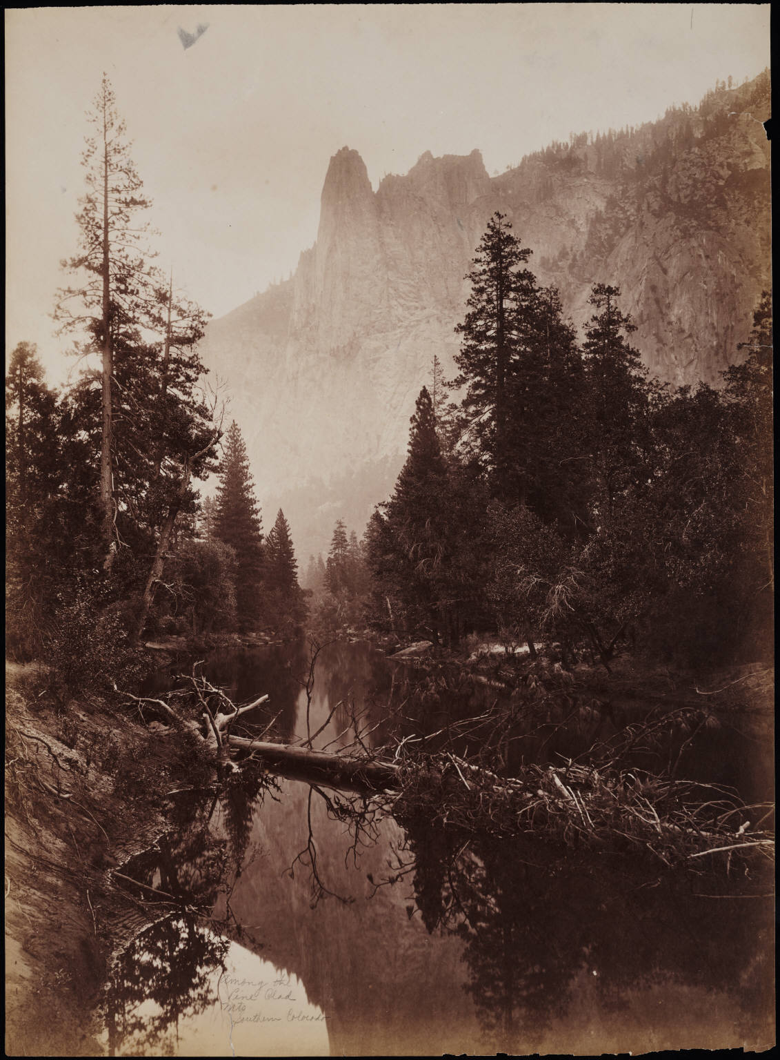 "Sentinel Rock, Yosemite, California," mammoth plate, by the American photographer Carleton E. Watkins. Courtesy of the Yale Collection of Western Americana, Beinecke Rare Book and Manuscript Library, Yale University, New Haven, Conn.